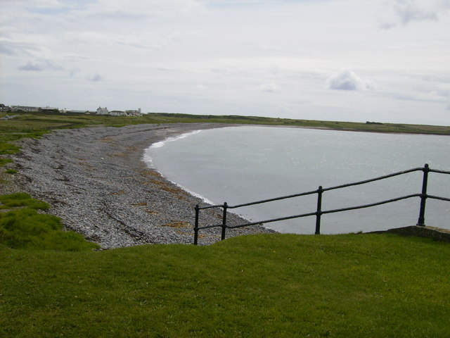 Start of the Langness Peninsula at Derbyhaven